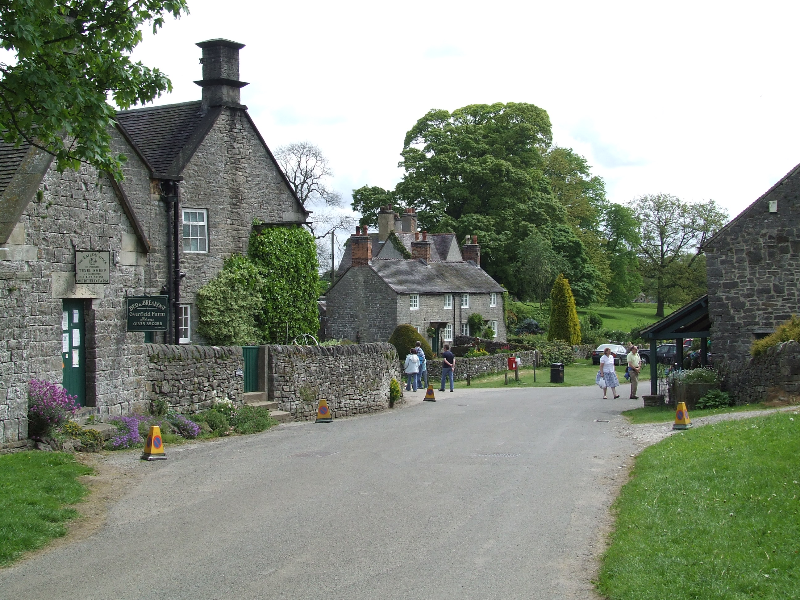 Typical cottages in Tissington, Derbyshire.